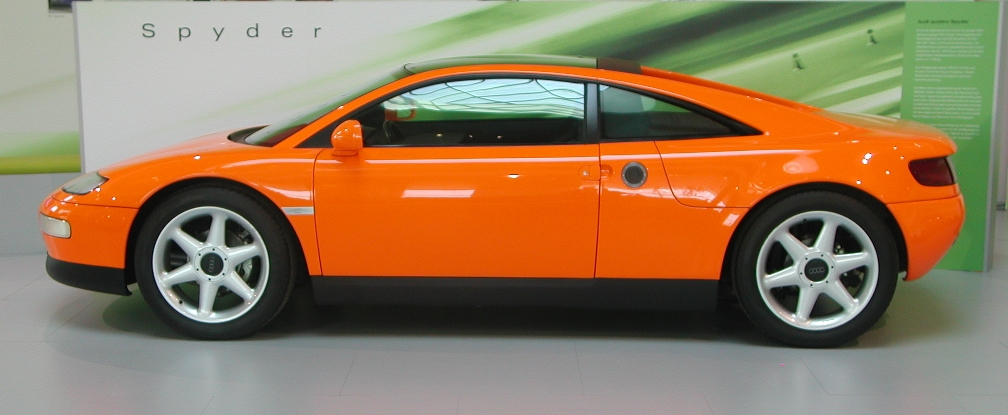 Audi Quattro Spyder